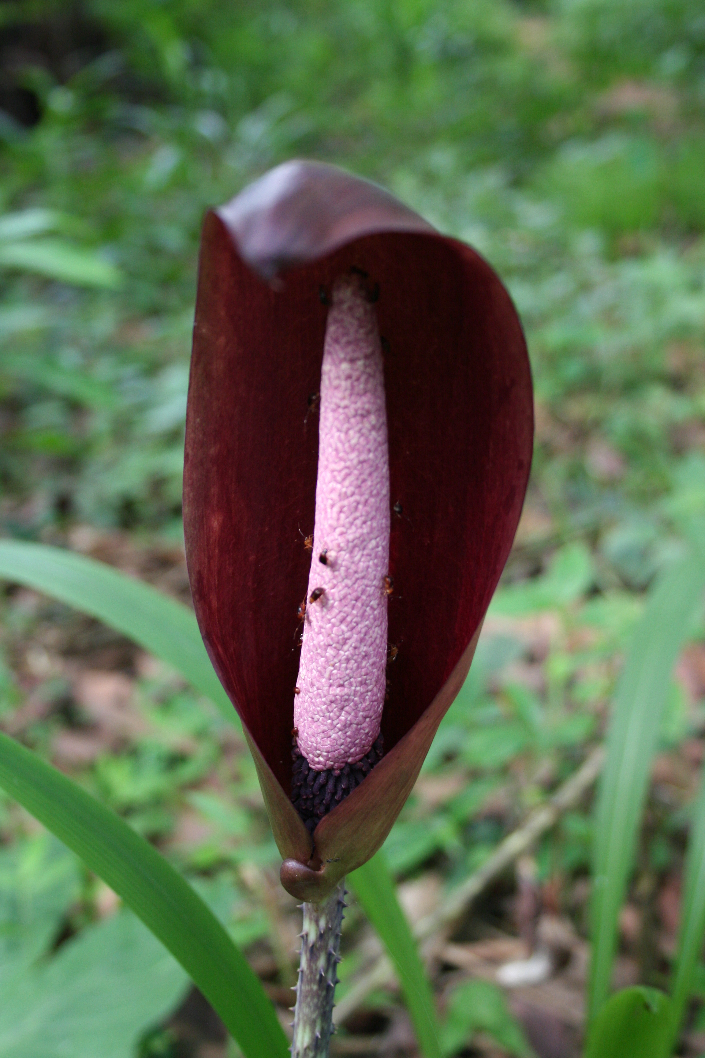 inflorescence of Anchomanes sp., Mt. Cameroon